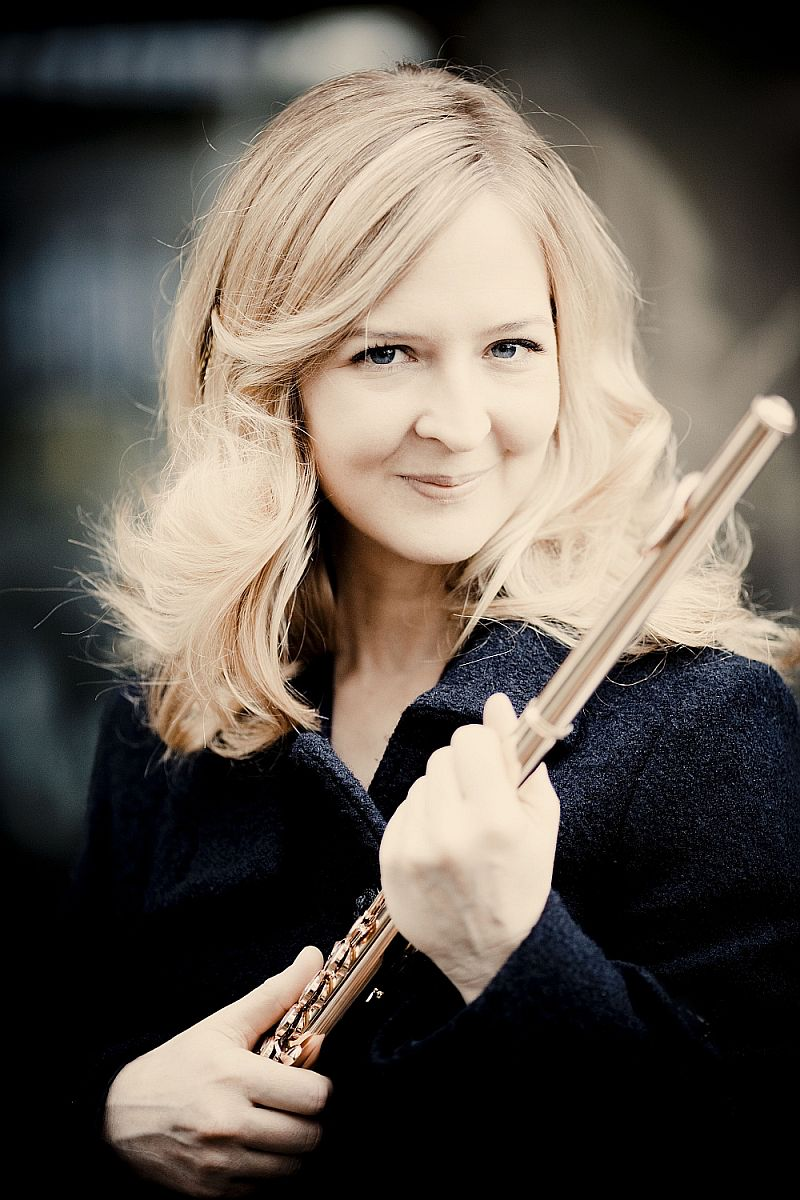 Tatjana Ruhland (Photo: Marco Borggreve)